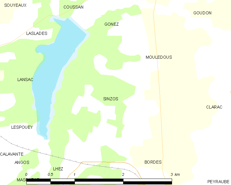 Map of French municipality